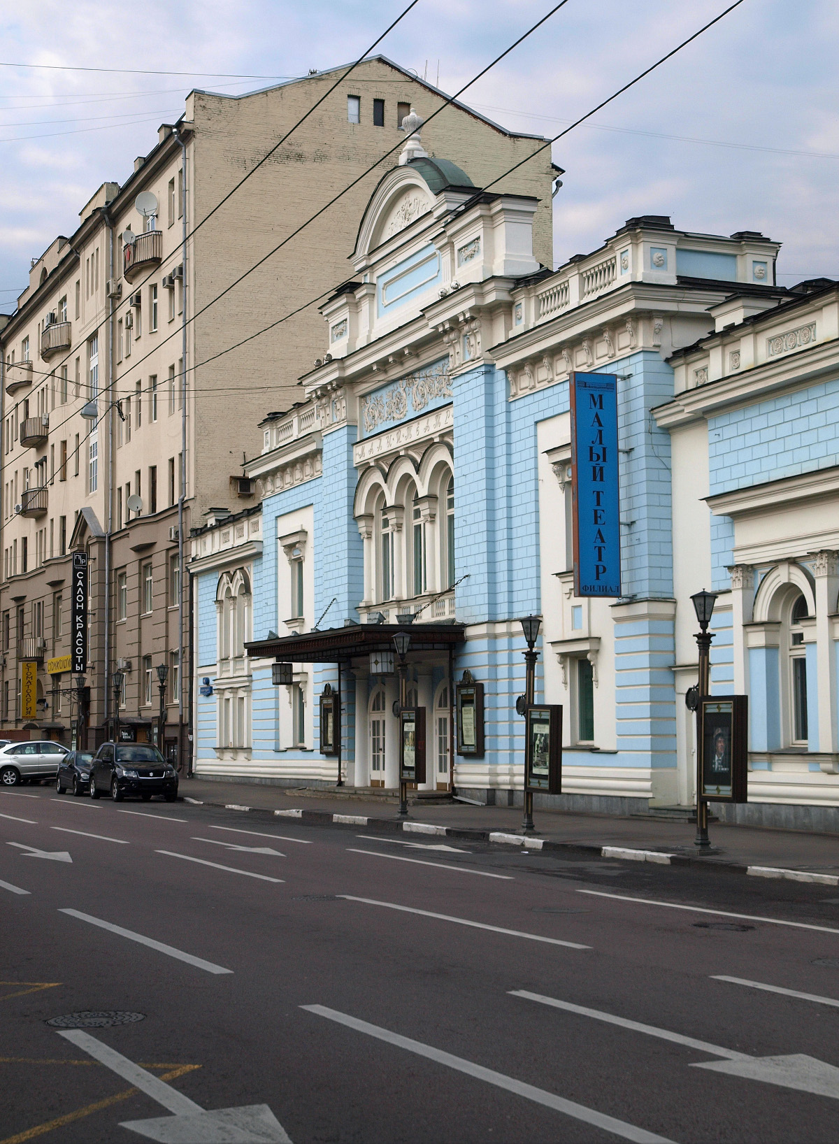 Bolshaya Ordynka Street, Moscow.